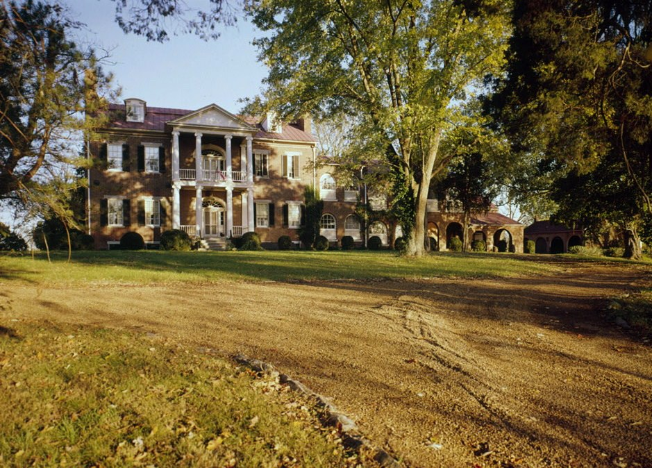 Fairvue, U.S. Highway 31-E, Gallatin vicinity Sumner County, Tennessee) This is a retouched picture, which means that it has been digitally altered from its original version. Modifications: cropped, colors balanced. This file comes from the Historic American Buildings Survey (HABS), Historic American Engineering Record (HAER) or Historic American Landscapes Survey (HALS). These are programs of the National Park Service established for the purpose of documenting historic places. Records consist of measured drawings, archival photographs, and written reports. When reusing please credit: Library of Congress, Prints & Photographs Division, tn23 This tag does not indicate the copyright status of the attached work. A normal copyright tag is still required. See Commons:Licensing. This work is in the public domain in the United States because it is a work prepared by an officer or employee of the United States Government as part of that person’s official duties under the terms of Title 17, Chapter 1, Section 105 of the US Code. Note: This only applies to original works of the Federal Government and not to the work of any individual U.S. state, territory, commonwealth, county, municipality, or any other subdivision. This template also does not apply to postage stamp designs published by the United States Postal Service since 1978. (See § 313.6(C)(1) of Compendium of U.S. Copyright Office Practices). It also does not apply to certain US coins; see The US Mint Terms of Use. This file has been identified as being free of known restrictions under copyright law, including all related and neighboring rights.